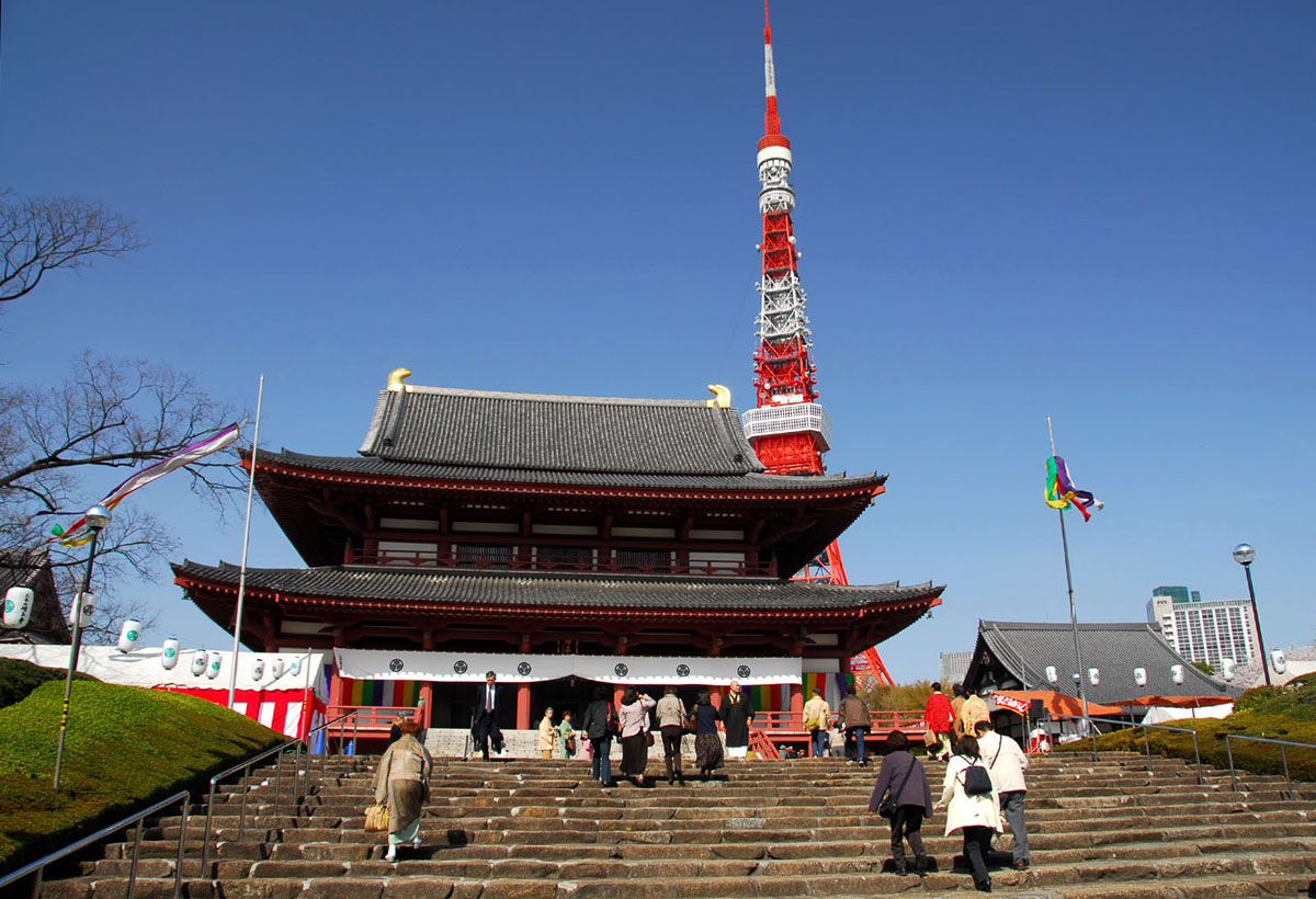 Zōjō-ji